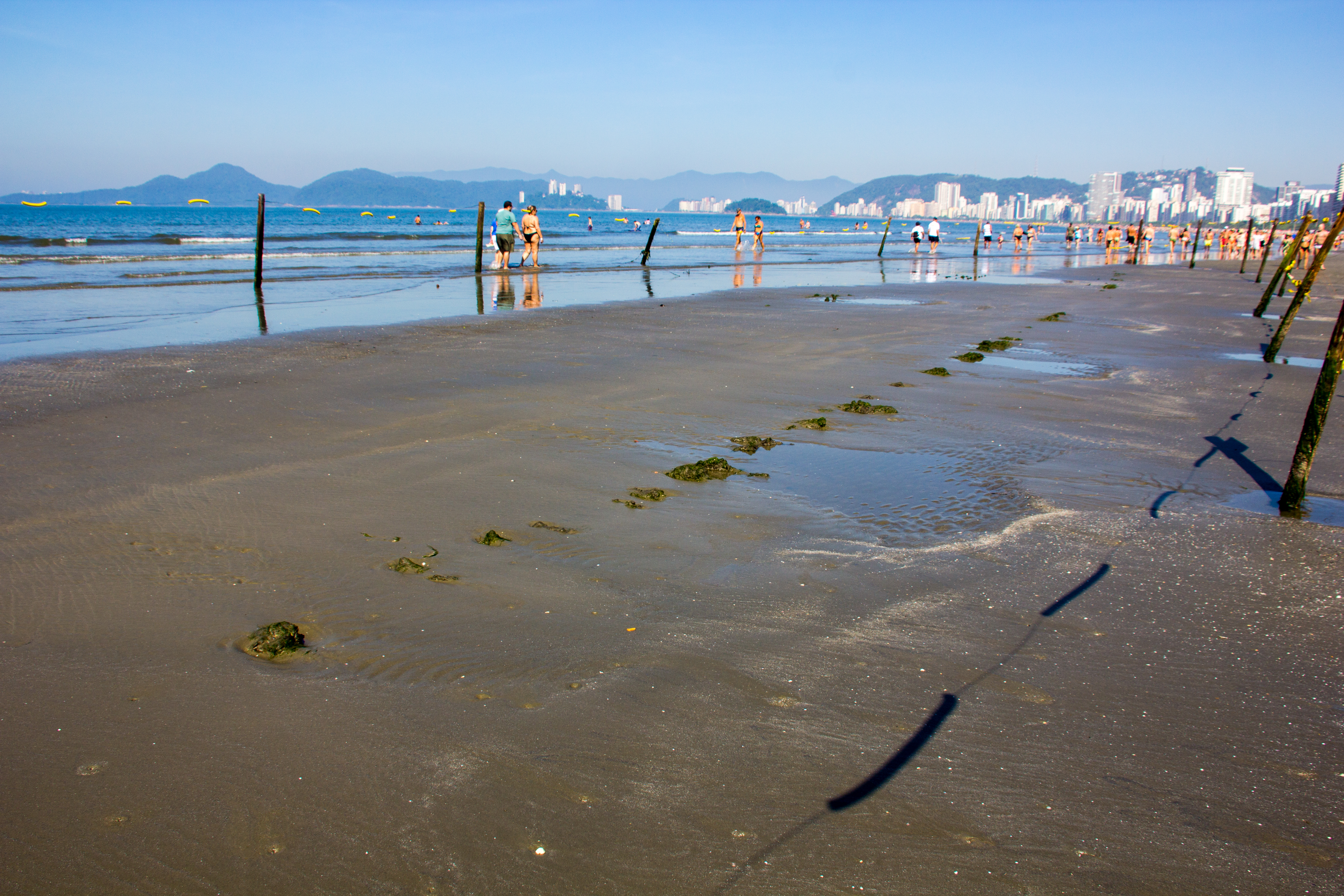 The shipwreck of Kestrel, on Santos beach, Brazil